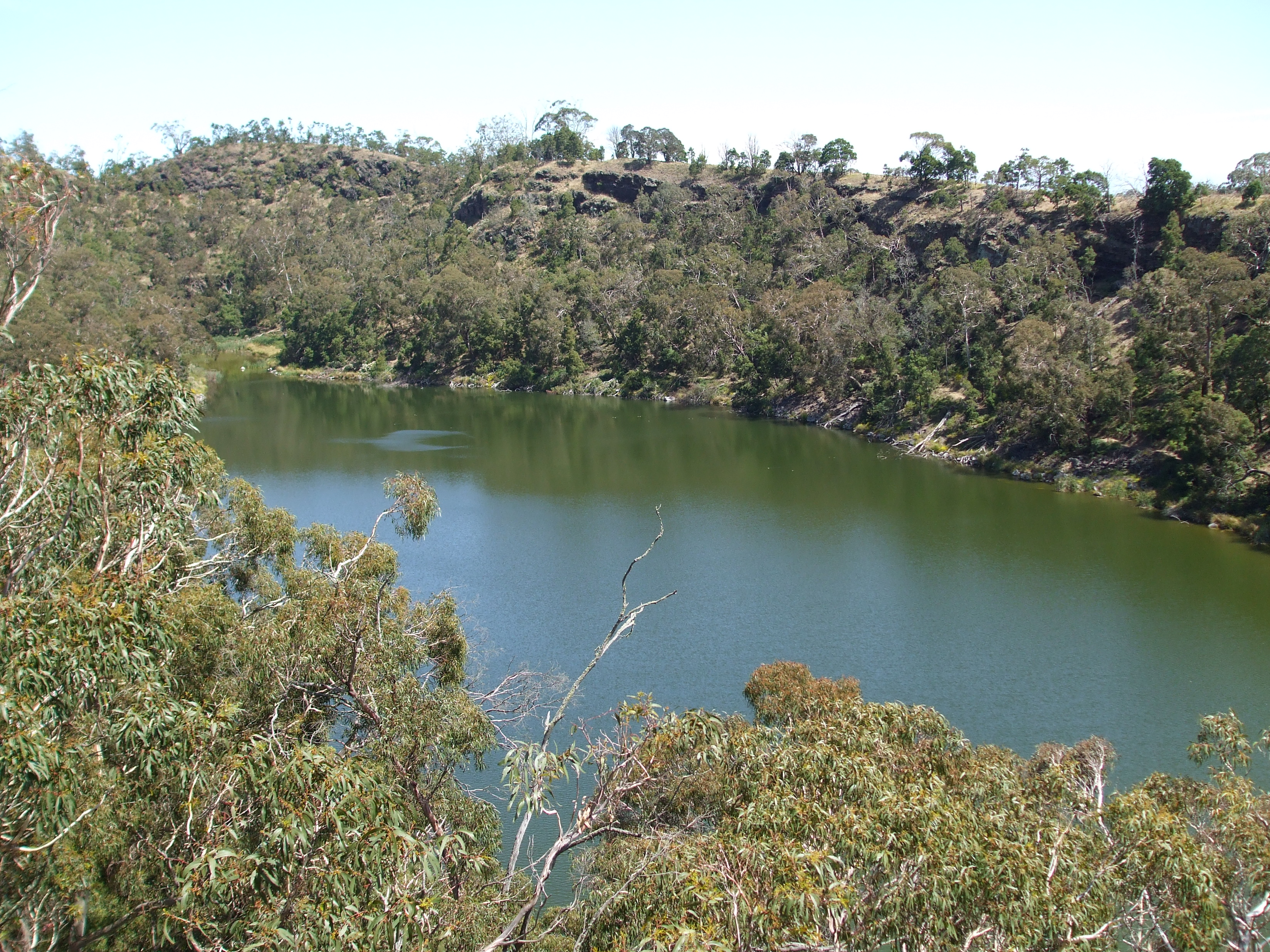 Lake Surprise, Budj Bim ‐ Mt Eccles National Park, Victoria, Australia